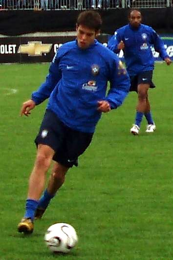 Kaká, the brazilian football midfielder, on 1 june 2006.